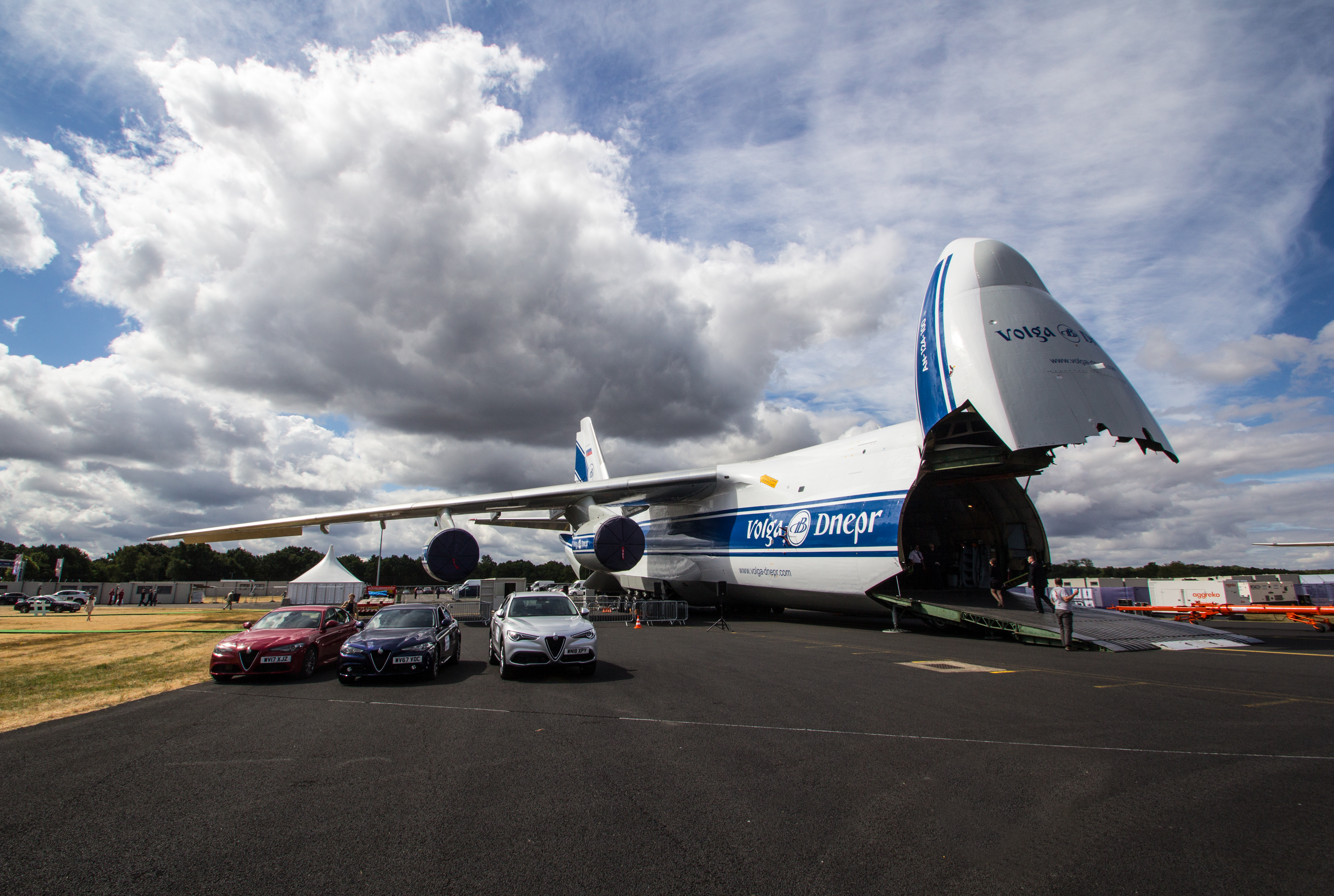 Farnborough International Airshow 2018, Hampshire